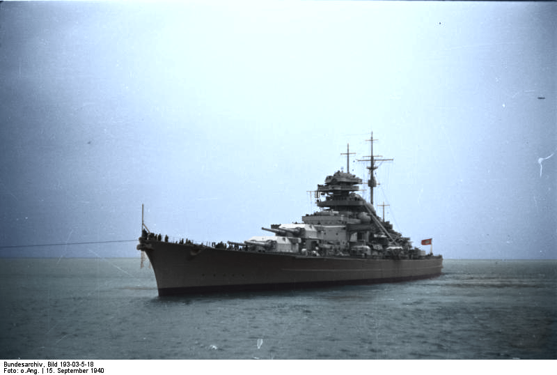 This is a retouched picture, which means that it has been digitally altered from its original version. Modifications: recolored. The original can be viewed here: Bundesarchiv Bild 193-03-5-18, Schlachtschiff Bismarck.jpg. Modifications made by Ruffneck88. Schlachtschiff Bismarck 15px|link= Photographer UnknownArchive description Description provided by the archive when the original description is incomplete or wrong. You can help by reporting errors and typos at Commons:Bundesarchiv/Error reports. Schlachtschiff Bismarck auf der Brunsbütteler ReedeTitle Schlachtschiff Bismarck Date 15 September 1940date QS:P,+1940-09-15T00:00:00Z/11Collection German Federal Archives Native nameDas BundesarchivLocationKoblenz (headquarters)Coordinates50° 20′ 32.71″ N, 7° 34′ 21.22″ E Established1946Web page control : Q685753 VIAF: 137346469 ISNI: 0000 0004 0555 2728 LCCN: n92025526 NLA: 36455393 Open Library: OL55798A WorldCat institution QS:P195,Q685753Current location Sammlung Schlachtschiff Bismarck (Bild 193)Accession number Bild 193-03-5-18 Source This image was provided to Wikimedia Commons by the German Federal Archive (Deutsches Bundesarchiv) as part of a cooperation project. The German Federal Archive guarantees an authentic representation only using the originals (negative and/or positive), resp. the digitalization of the originals as provided by the Digital Image Archive.